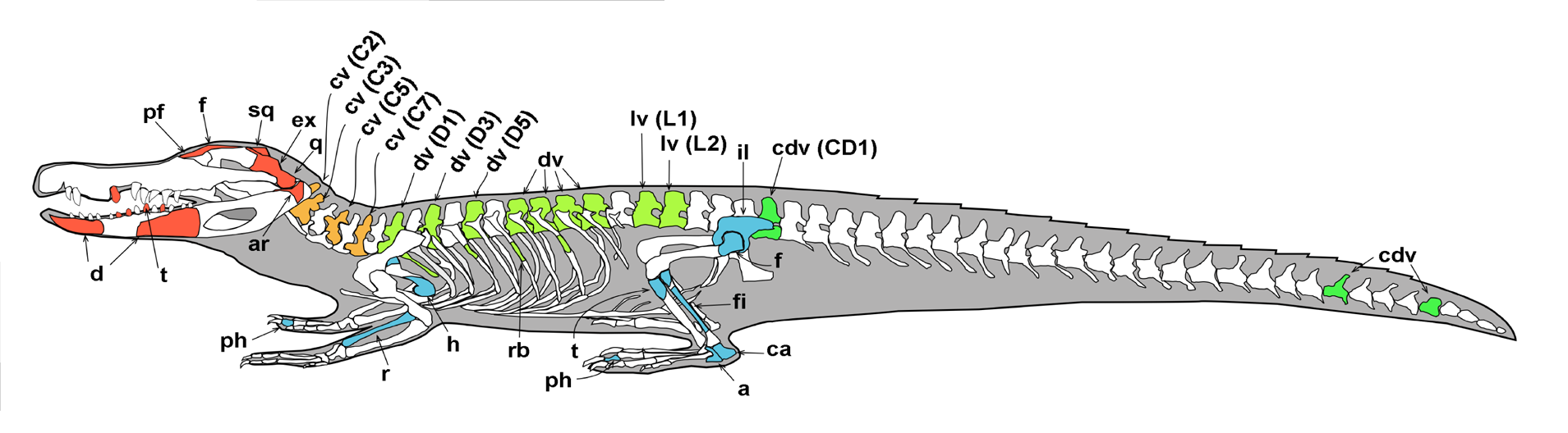 Allodaposuchus palustris, anatomical location of the recovered bones. Abbreviations: a, astragalus; ar, articular; ca, calcaneum; cdv, caudal vertebra; cr, cervical rib; cv, cervical vertebra; d, dentary; dr, dorsal rib; dv, dorsal vertebra; eo, exoccipital; ept, ectopterygoid; f, frontal; fi, fibula; fm, femur; h, humerus; il, ilium; lv, lumbar vertebra; ost, osteoderm; pa, parietal; pf, prefrontal; ph, phalanx; q, quadrate; r, radius; rb, rib; sf: skull fragment; sq, squamosal; t, tooth; ti, tibia; ul, ulna.